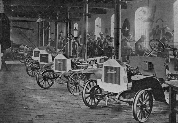 Photograph taken inside the Briton Motor Co Ltd factory, Wolverhampton around 1911.